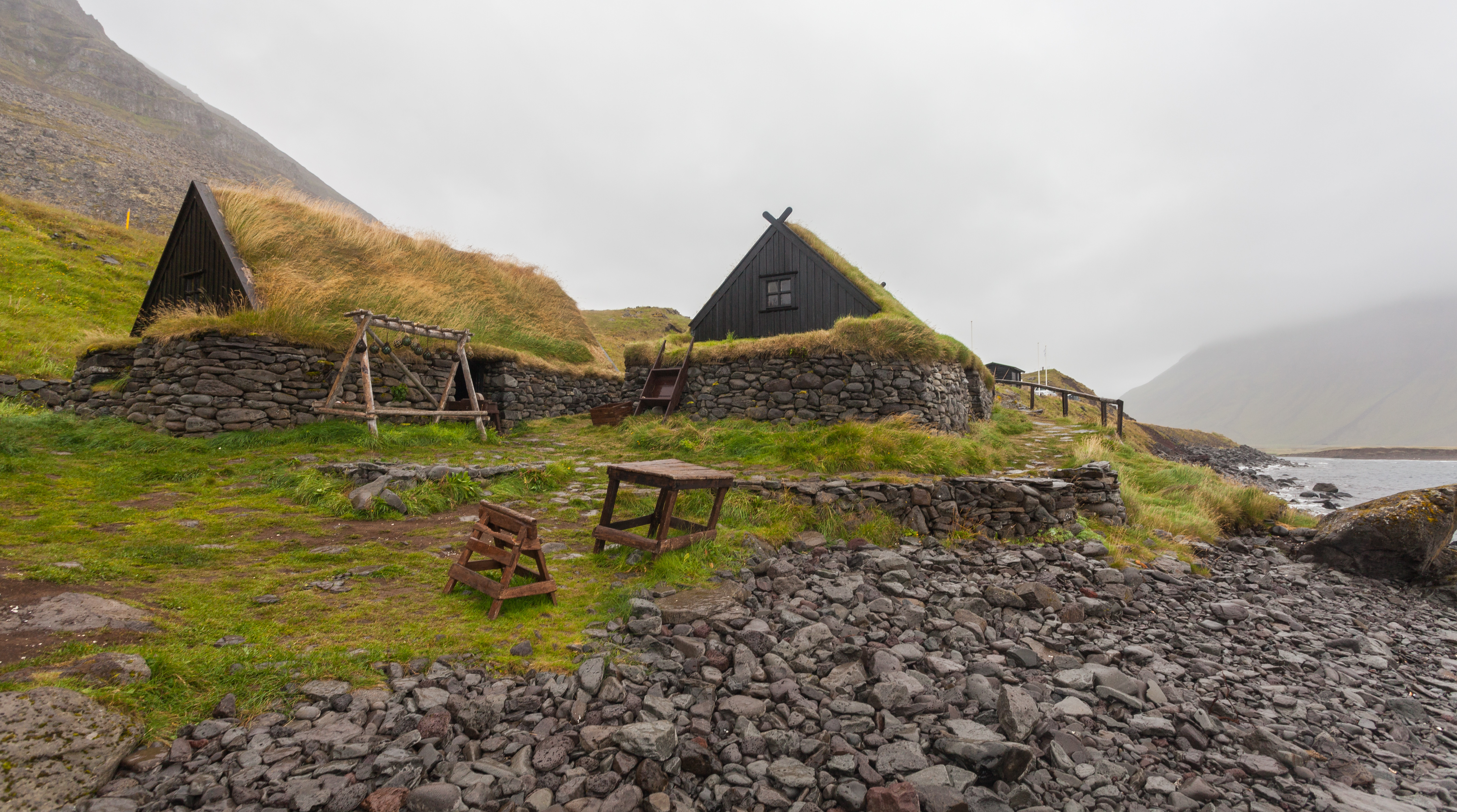 Ósvör maritime museum, Bolungarvík, Vestfirðir, Iceland.